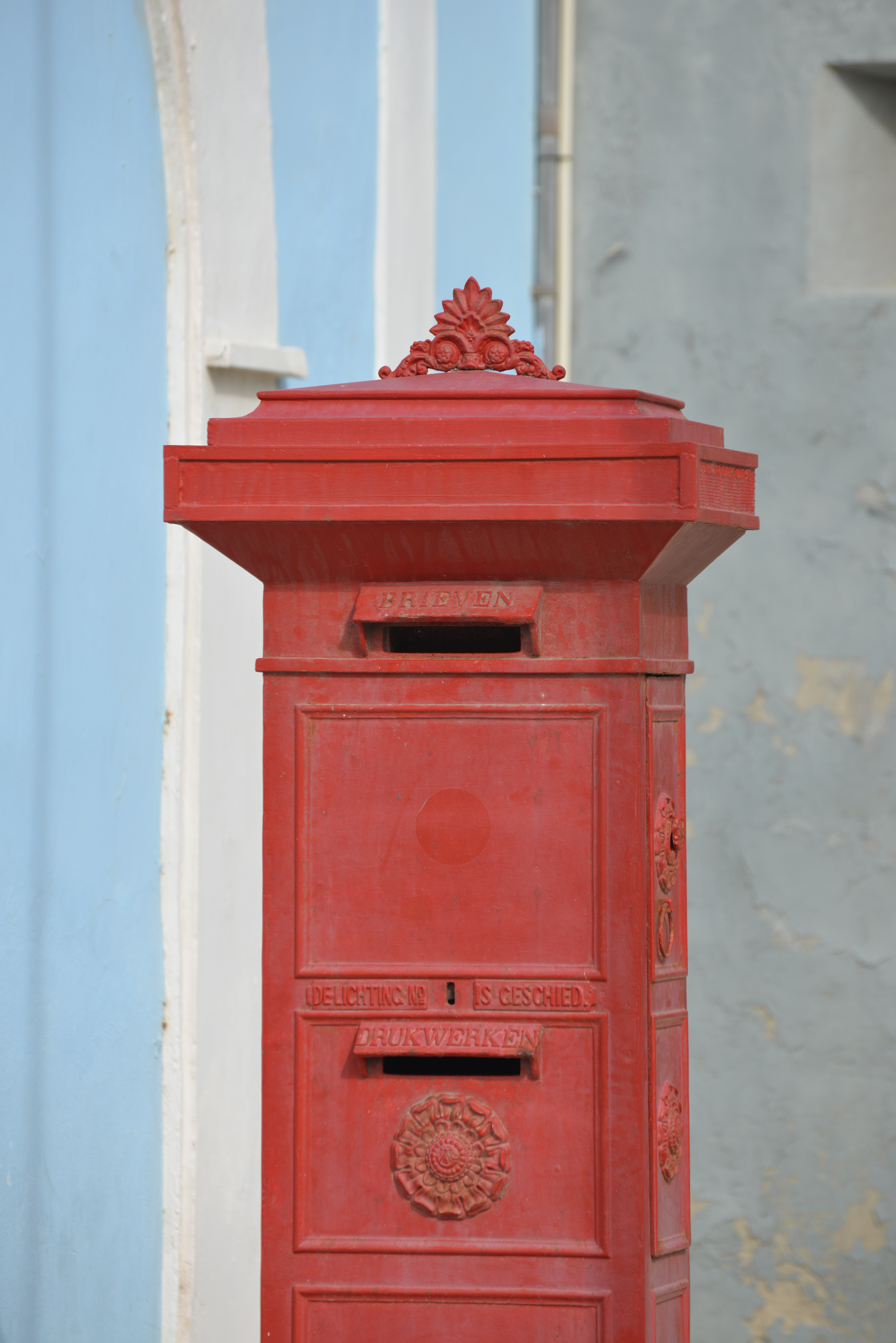 You've got mail Sir Willem